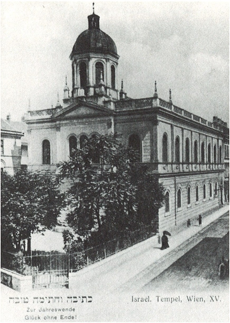 Photo of the Synagoge Turnergasse in Vienna.